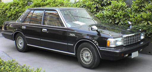 Toyota Crown Series 120 Royal Saloon sedan 、